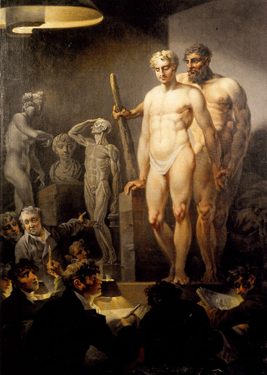 Model Class at the Copenhagen Academy of Arts (Christian August Lorentzen, ca. 1824)